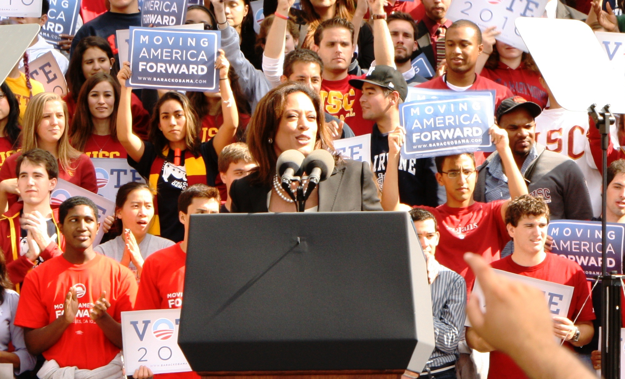 Democratic Rally held at USC's Alumni Park on October 22, 2010. (Photo by: Shotgun Spratling)